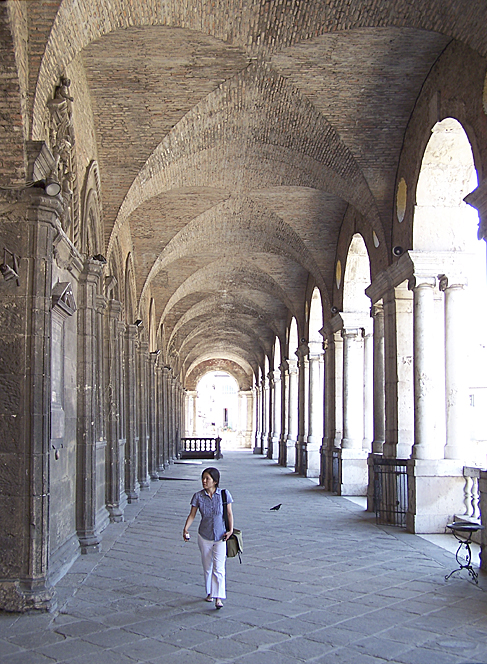 Upper level loggia of the Basilica Palladiana, the former Palazzo della Ragione by Andrea Palladio